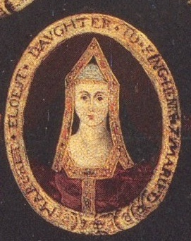 Detail of a Family Tree of King James I. of England, to show his Tudor ancestry